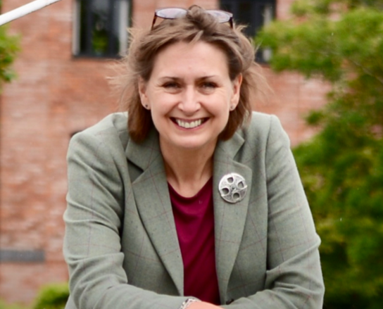 Photo of Judith Bunting by Toby Hockin, taken May 2013 - copyright owned by Judith Bunting & irrevocably released under the Creative Commons CC0 License 21 May 2019.